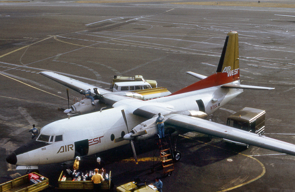 Fairchild F-27A N755L wearing the Air West colour scheme at San Francisco International in 1970